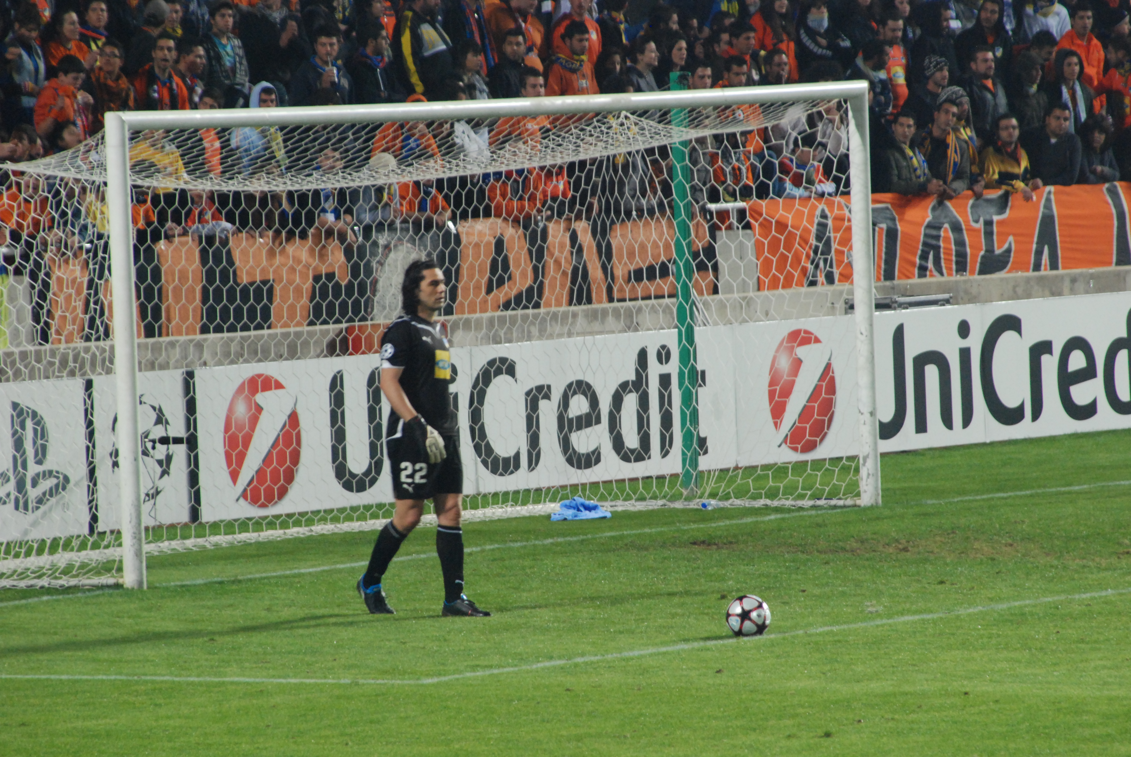 For the group stages of the UEFA Champions League 2009/2010 APOEL-Atlético